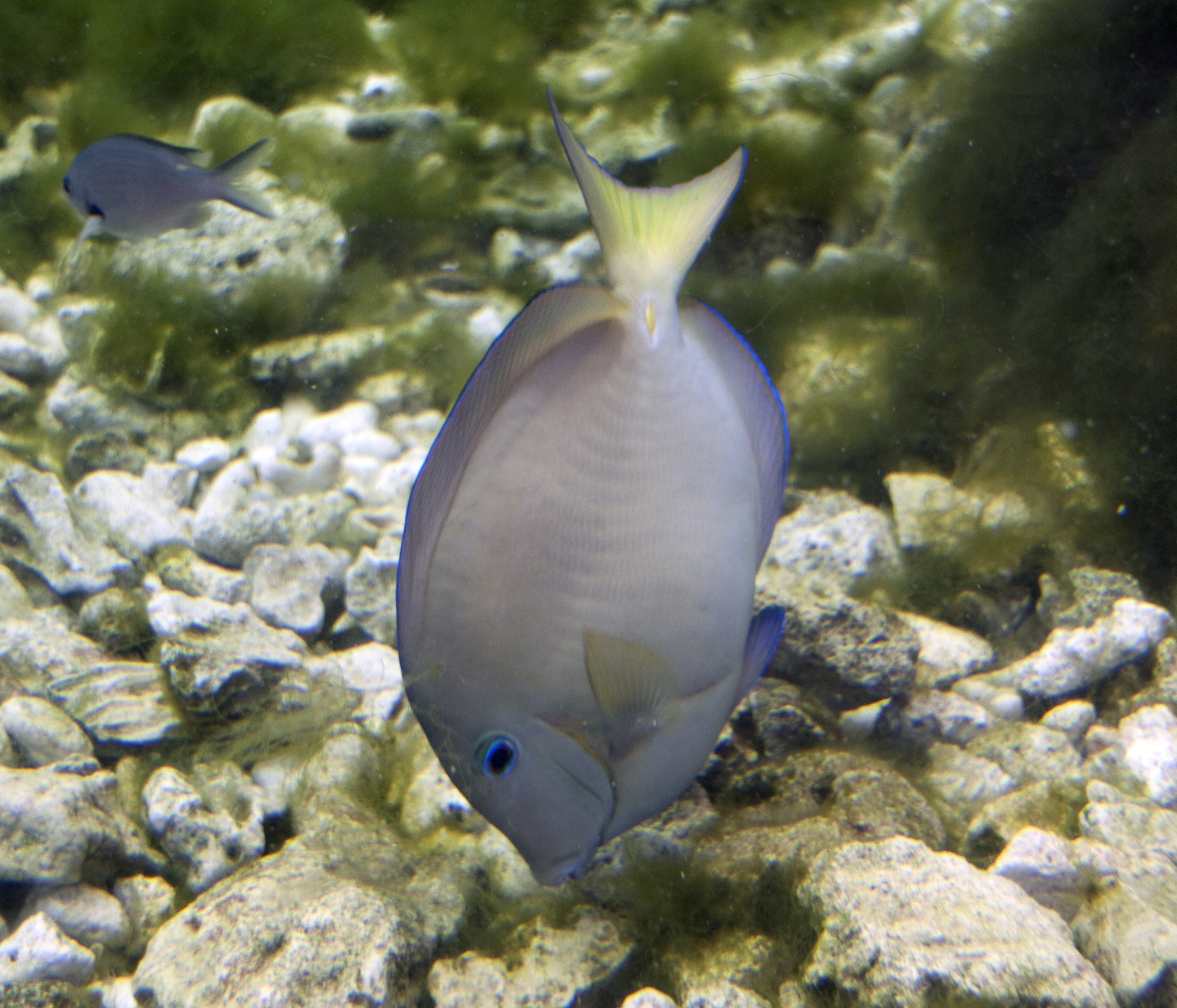 Some of the Riviera Maya Reef Fish